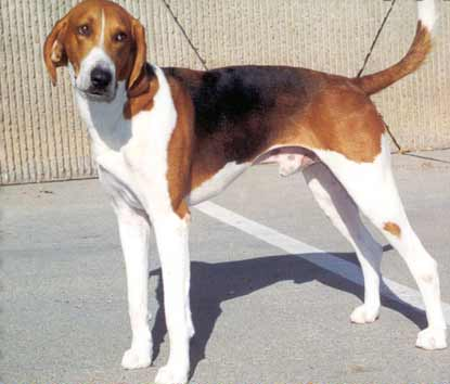 American Foxhound Image